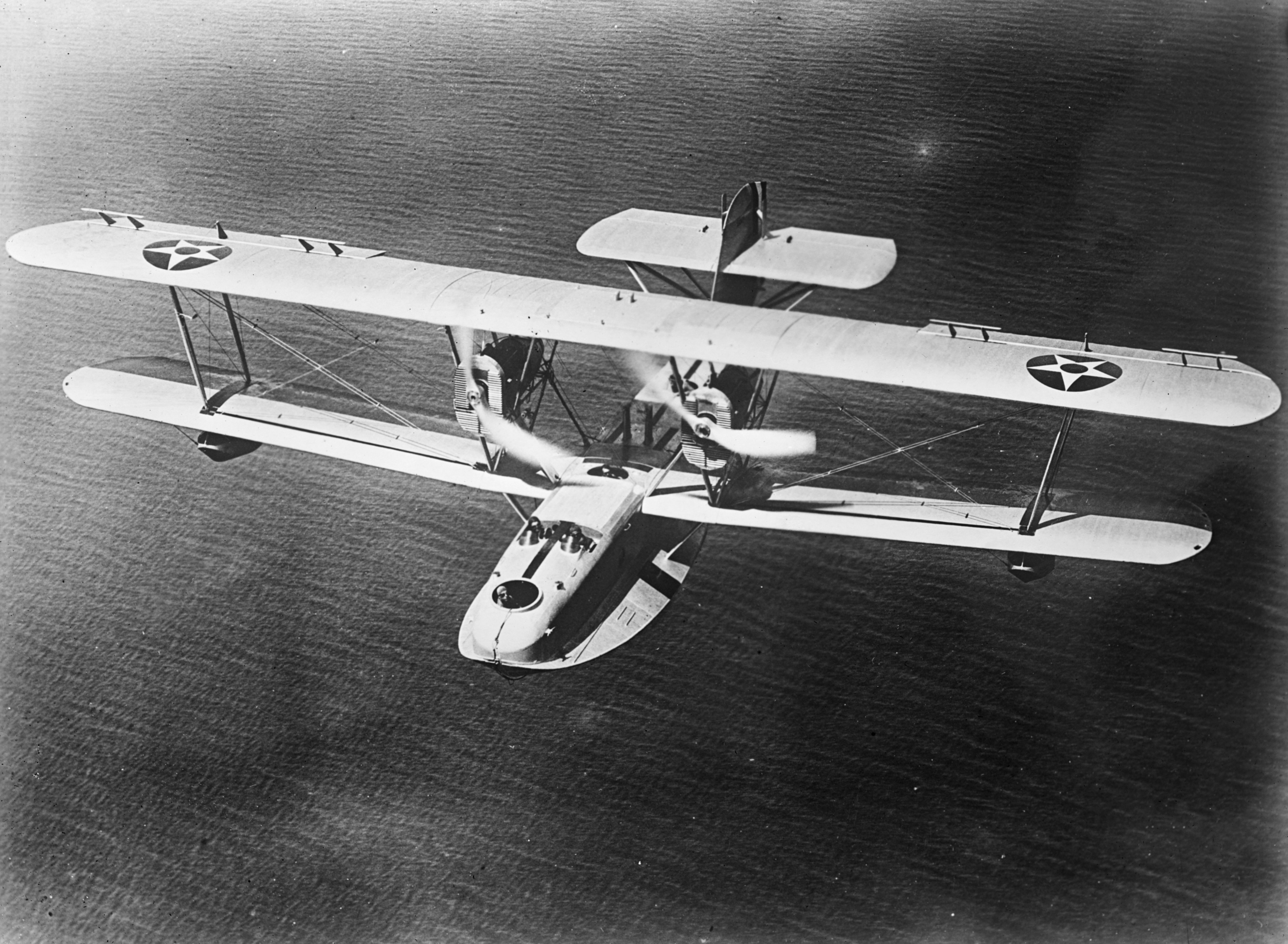 Naval Aircraft Factory PN-9, US Navy patrol flying boat, 1925. The aircraft set a world distance record for seaplanes in September 1925 when it flew from San Francisco to Hawaii under the command of Commander John Rogers. While it had to sail the last 559 miles after running out of fuel, the 1,841 miles covered by air was recognized as a new world seaplane distance record.